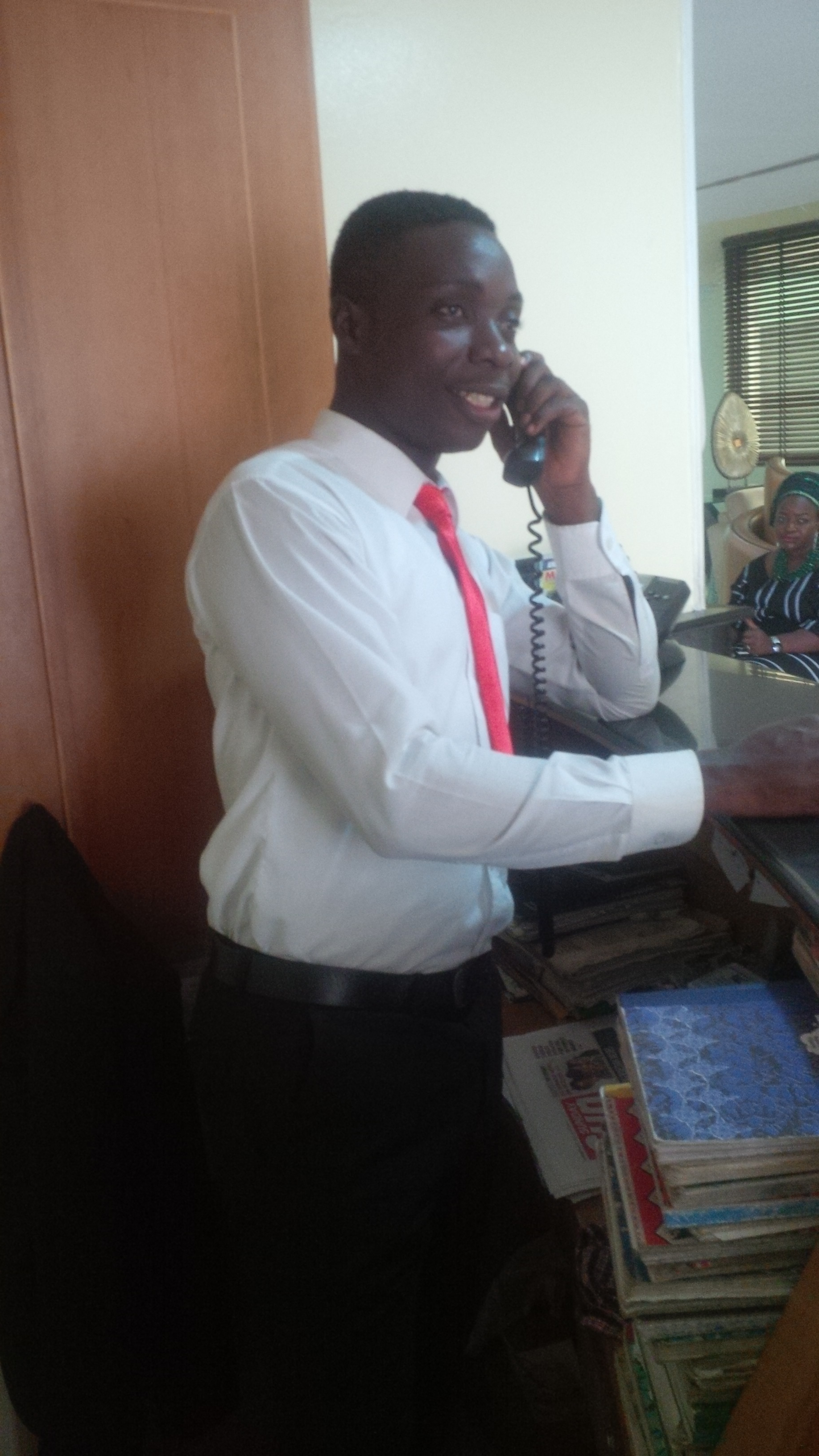 A concierge officer at Westown Hotel This is an image of "African people at work" from Nigeria